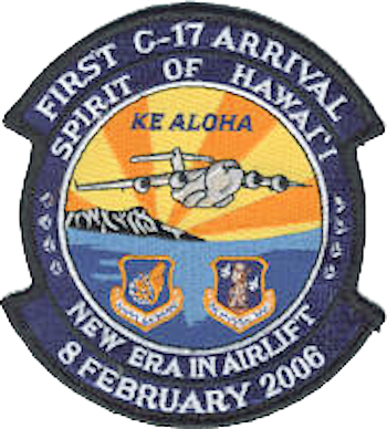 C-17 arriving in Hawaii patch